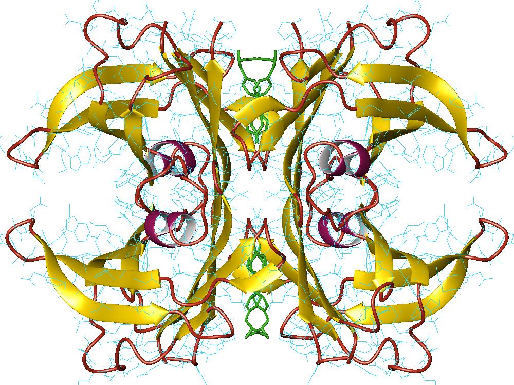 Transthyretin tetramer + 4 T4 (green), Human